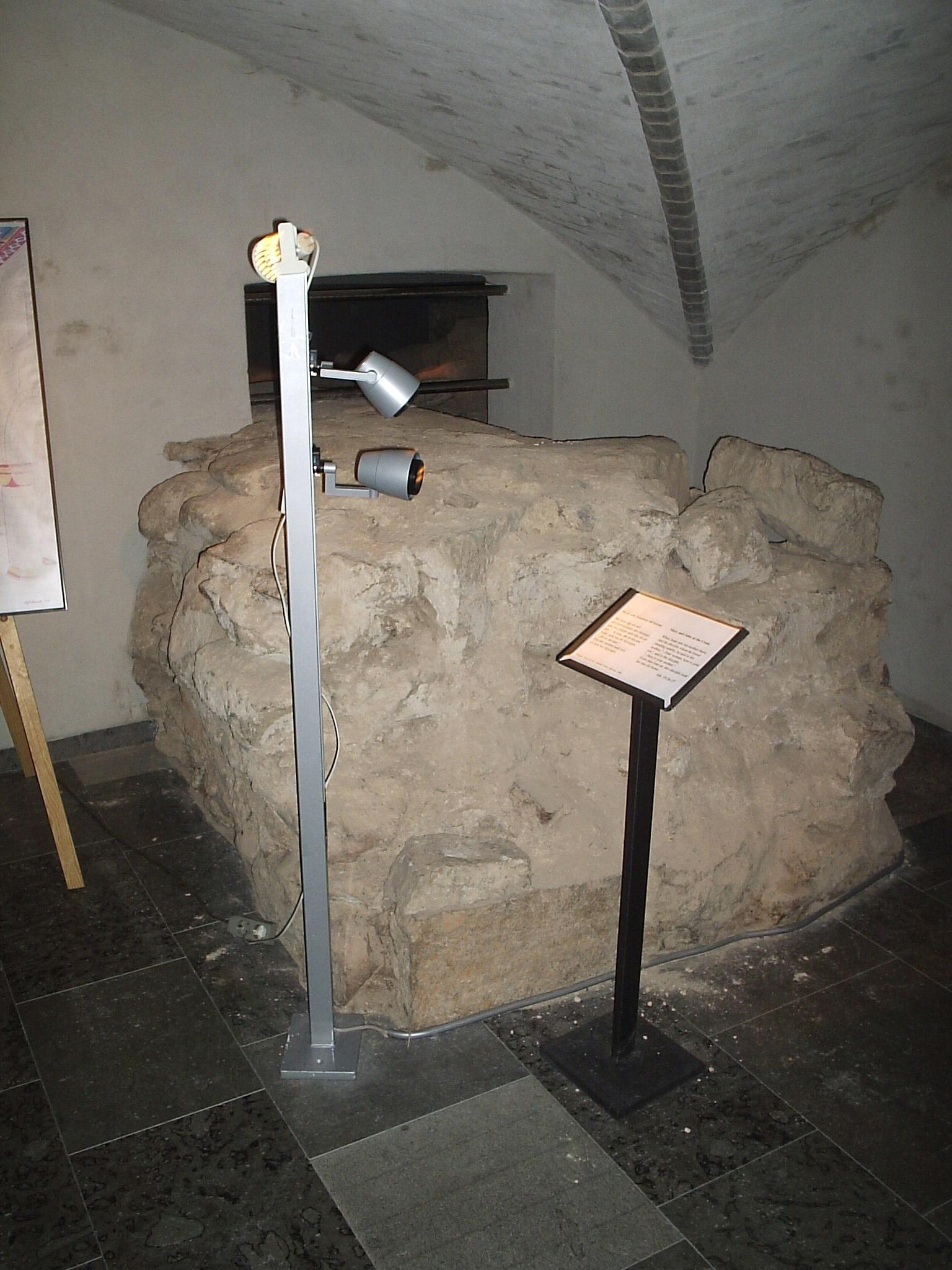 Photo by Harri Blomberg.